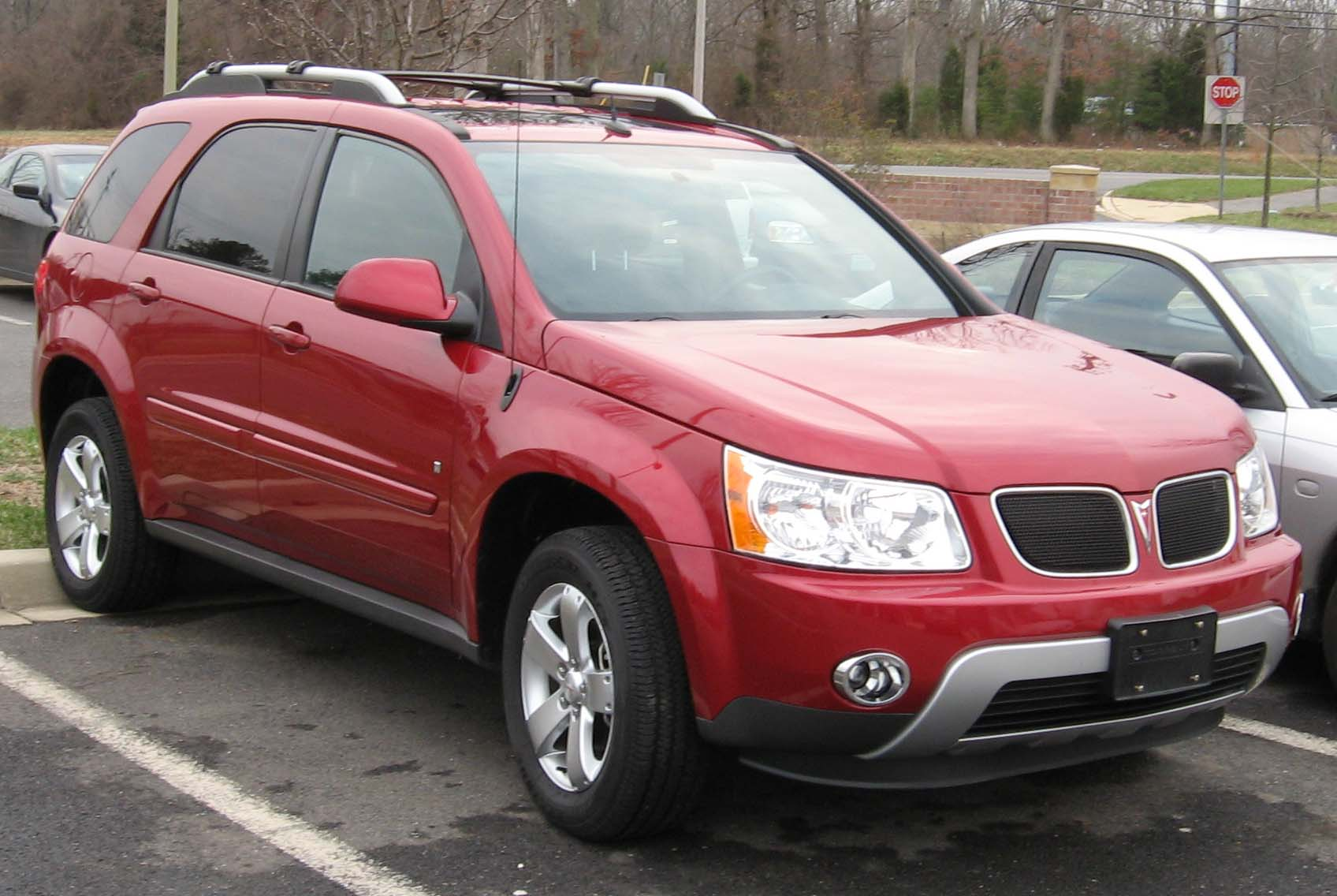 2006-2007 Pontiac Torrent photographed in USA.